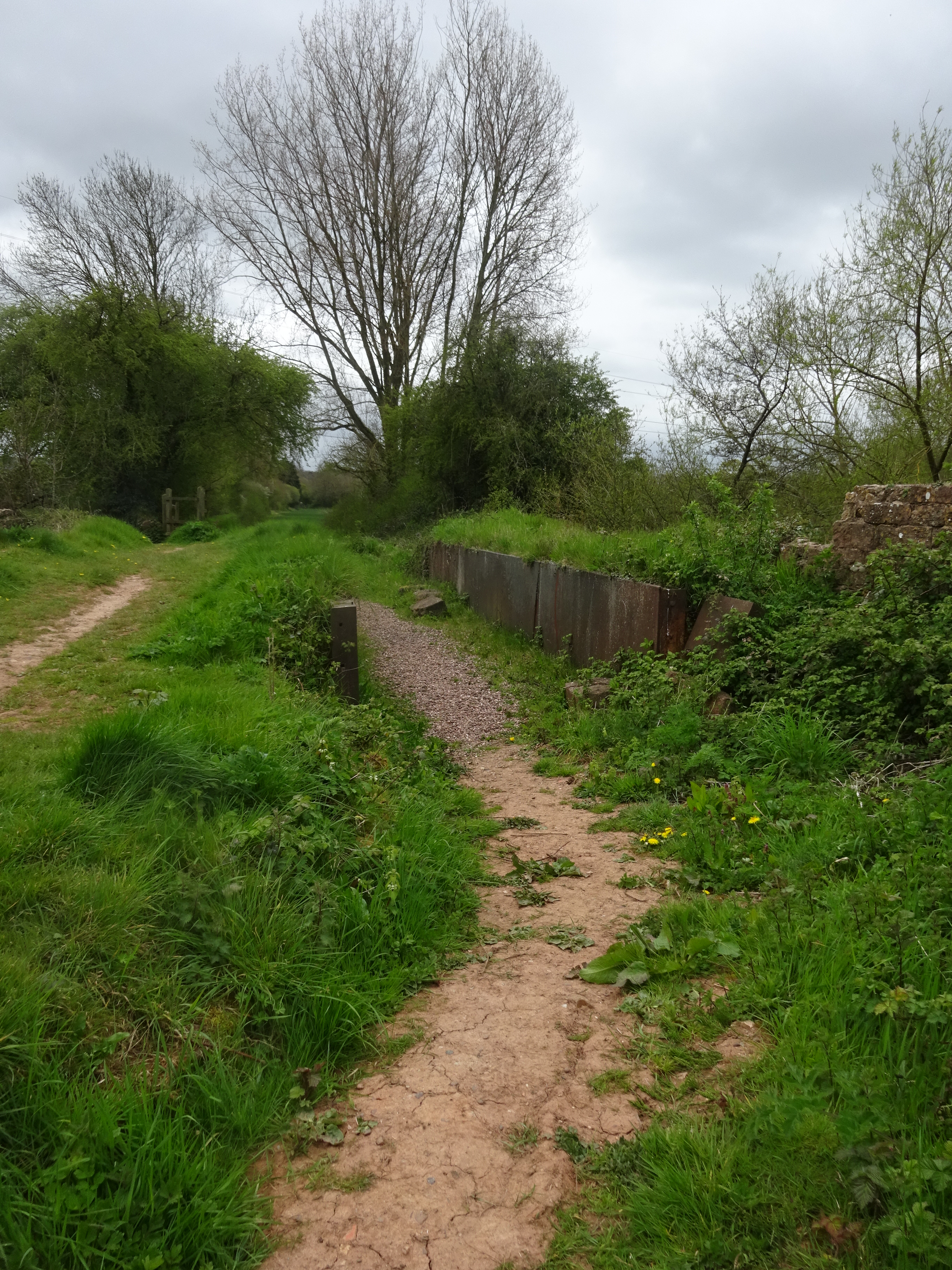 This is the remains of the aqueduct that carried the Grand Western Canal over the River Tone. The cast iron trough on the right carried the canal and the tow path was to the left